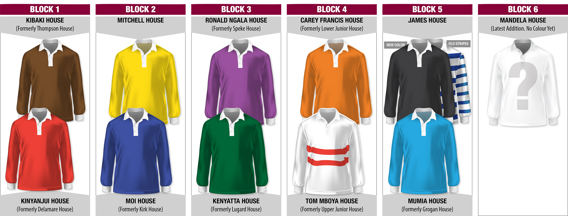 Lenana School Blocks, Houses & Colours: BLOCK 1: Kibaki (Formerly Thompson House) & Kinyanjui (Formerly Delamere House) House, BLOCK 2: Mitchell & Moi (Formerly Kirk House) House, BLOCK 3 Ronald Ngala (Formerly Speke House) & Kenyatta (Formerly Lugard House) House, BLOCK 4: Carey Francis (Formerly Lower Junior House) & Tom Mboya (Formerly Upper Junior House) House, BLOCK 5: James & Mumia (Formerly Grogan House) House, BLOCK 6: Mandela House.